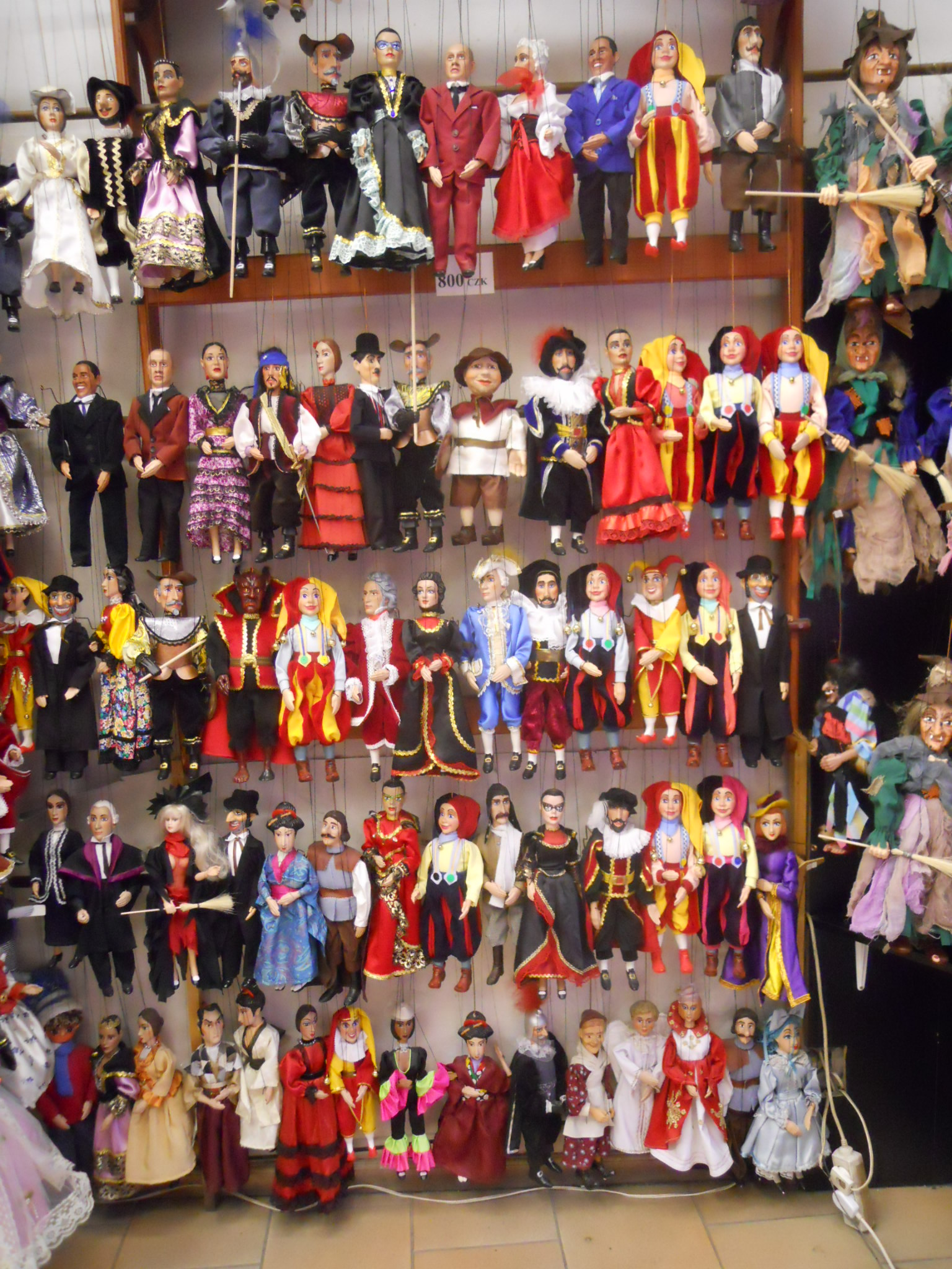 Marionettes in a shop in Prague